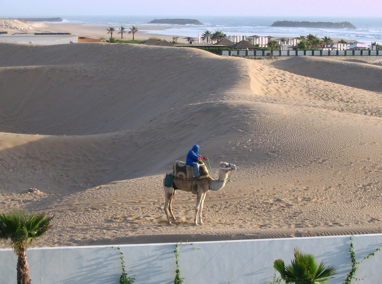 Coastline south of Agadir in the evening light - a Berber on his camel in quiet prayer